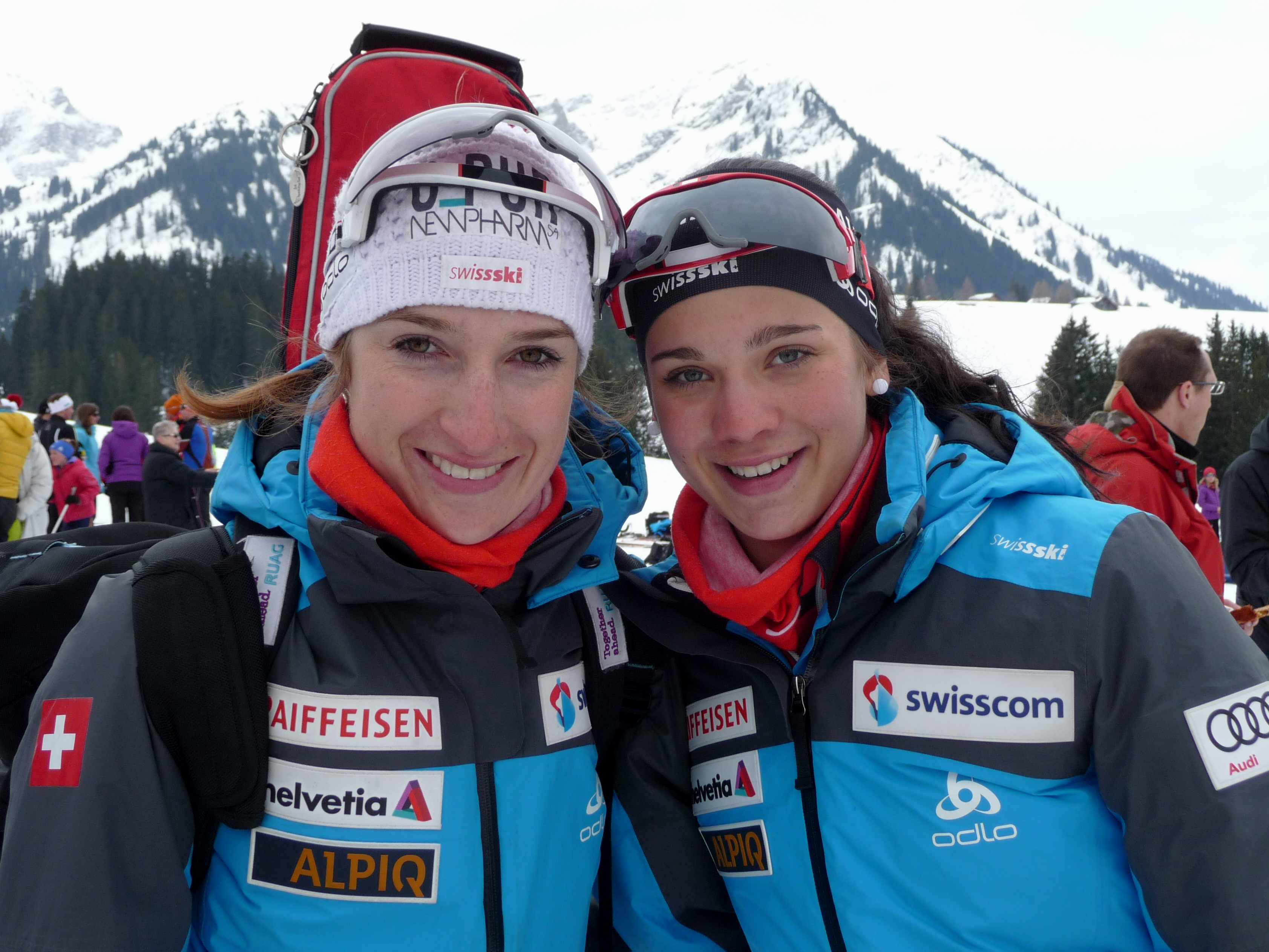 Swiss biathletes Flurina Volken and Patricia Jost at National Championships in Biathlon 2013 in La Lécherette, Switzerland